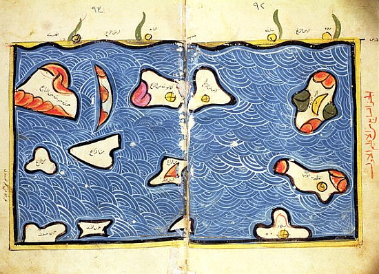 This 12th-century map of the Indian Ocean by al-Idrisi is so obviously imprecise as to seem almost decorative. (Note its similarity to the islands of the Indian Ocean in his world map) But don’t fault him for trying: It was one thing to be able to sail all the way to China and quite another to explain to a stay-at-home scholar where one had been. It is easy to forget what an achievement even a simple map represented. Until the 15th century, mariners knew maps could indicate relative shapes and sizes, but they were nearly useless for navigation. NATIONAL LIBRARY, CAIRO / GIRAUDON / ART RESOURCE